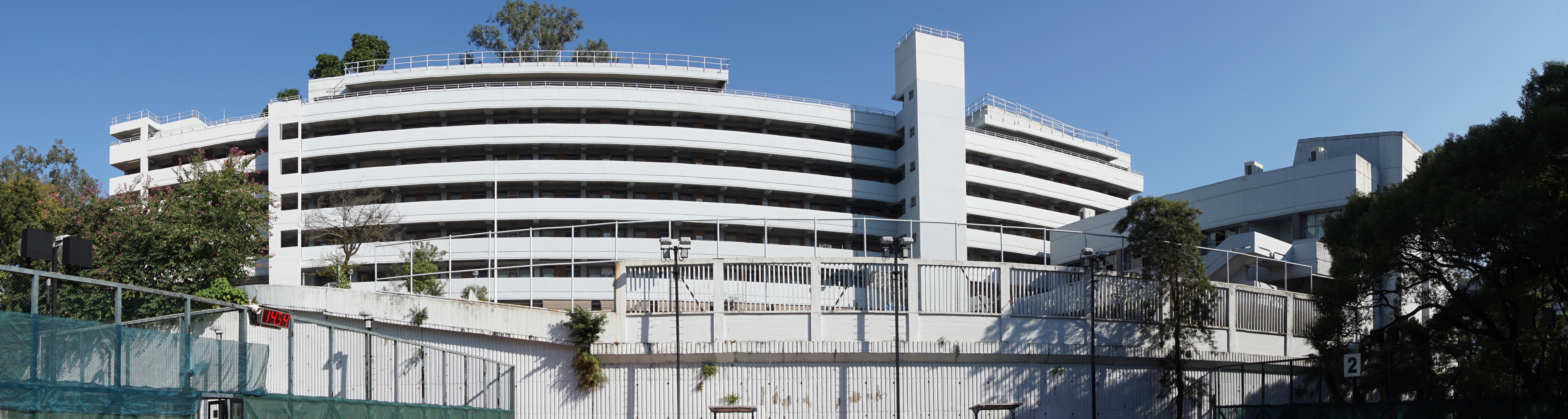 SKH Bishop Mok Sau Tseng Secondary School in Tai Po, Hong Kong.